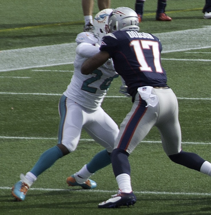 New England Patriots wide receiver, Aaron Dobson, making a block against Miami Dolphins cornerback, Dimitri Patterson.